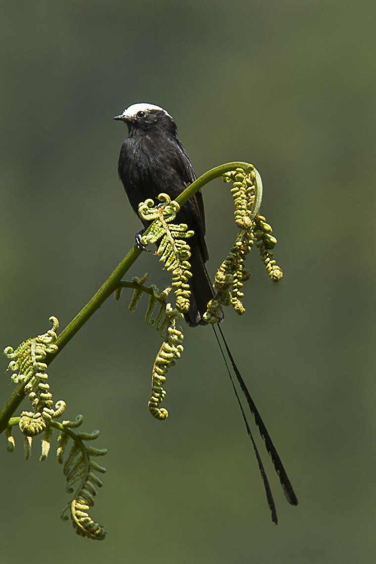 Long-tailed tyrant (Colonia colonus) - South Ecuador_S4E2507